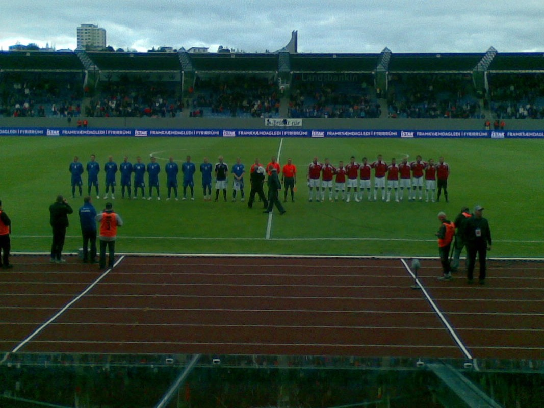 Icelandic national football team vs. Slovakia national football team in Reykjavik, Iceland at the Laugardals Vollur Stadium on August 12, 2009